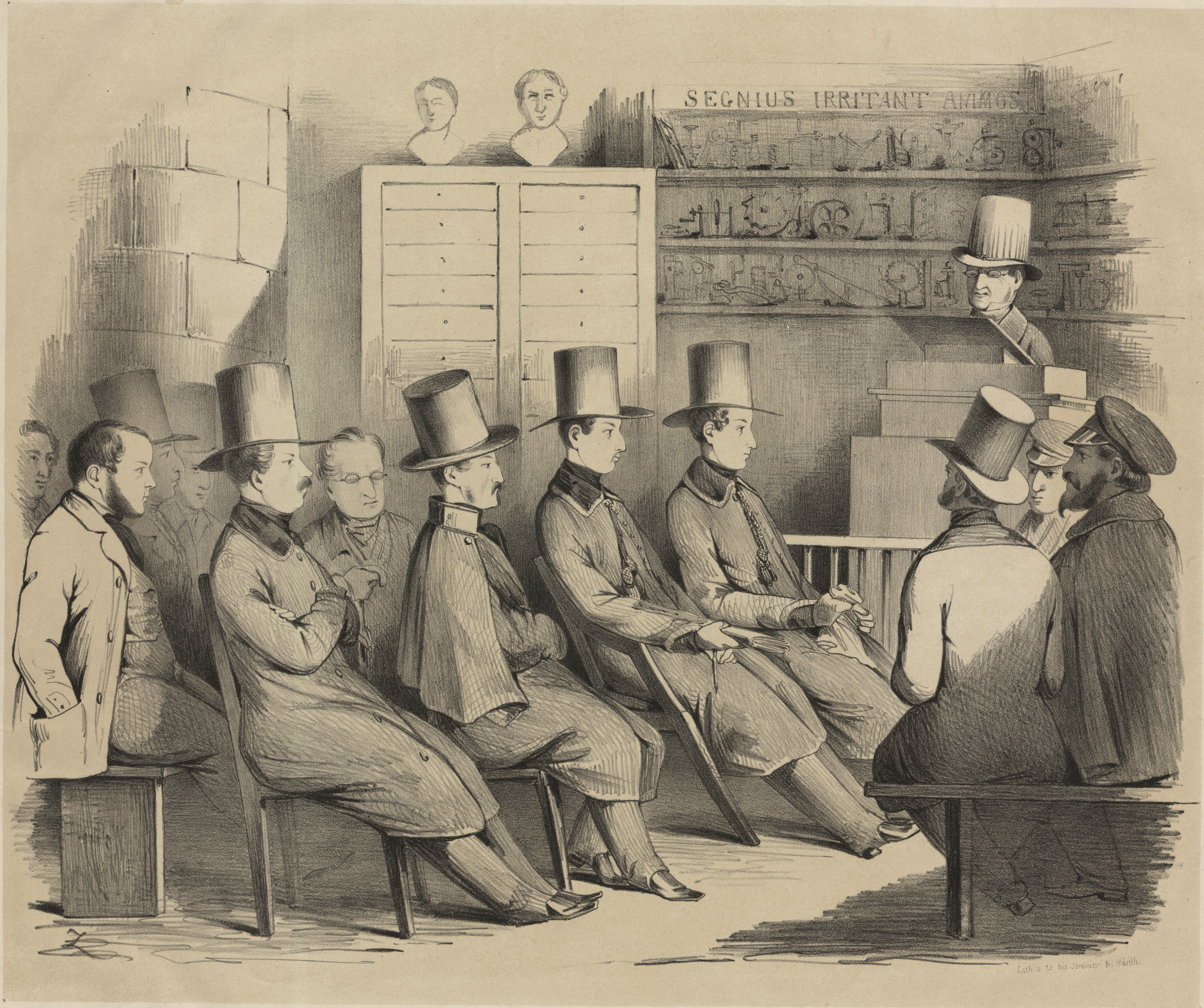 Crown Prince Carl (the later king Charles XV) and his brother Prince Gustaf, known as a song composer, attending a lecture held by Prof. Johan Chr. Lindblad in the Theatrum Œconomicum, Uppsala. Lithograph from 1846. Author is probably Adolf Hårdh (1807-1855)